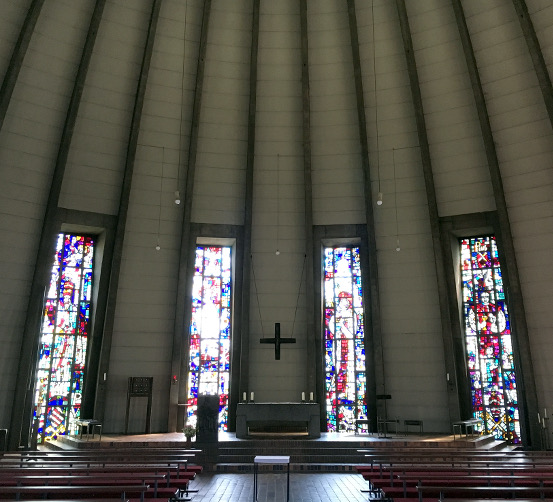 Church St. Pius in Ingolstadt interior